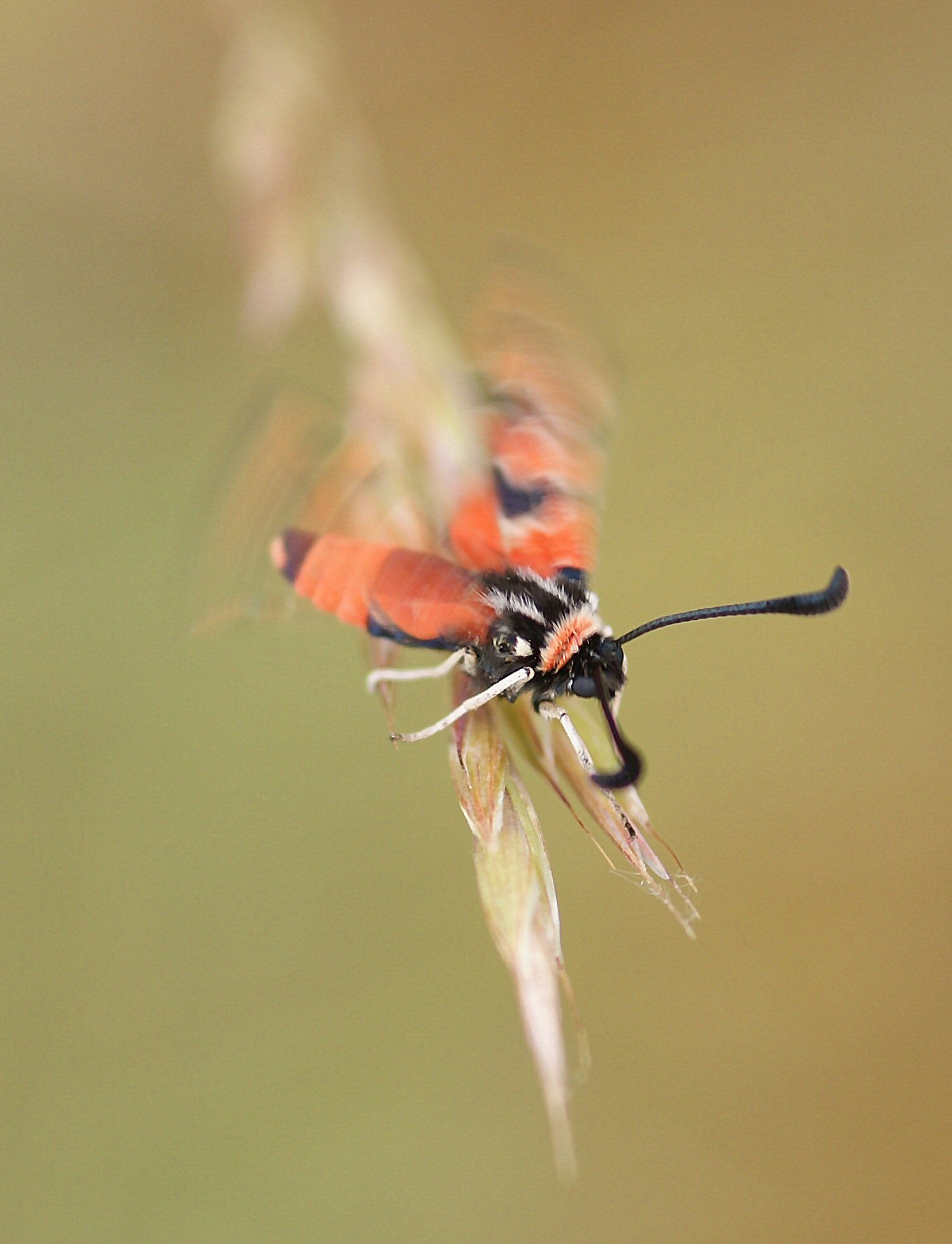 Zygaena fausta just after heavy rain, taking off having dried its wings resting on a grass flowerhead, May 2011, Dordogne, France